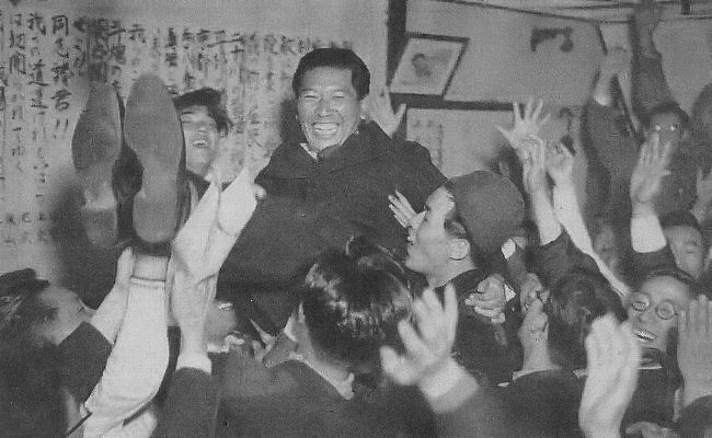 Torazo Ninagwa supportersa